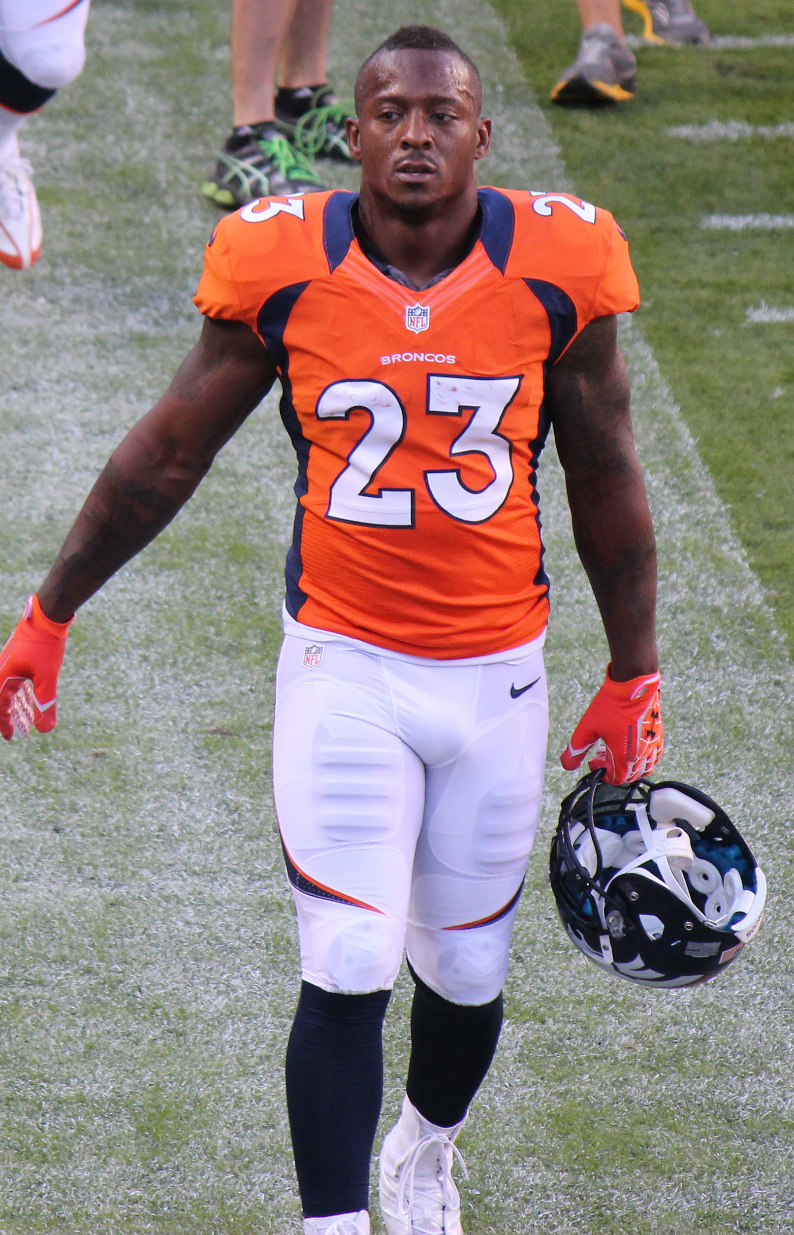 Willis McGahee, a player on the National Football League.